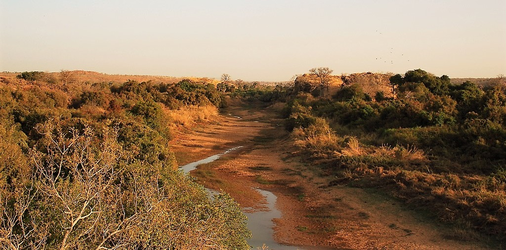 A partially dry steam in the W National Park, Niger. Note, the photgraph was taken at the end of March, in the midst of the driest -- and hottest -- months of the year. The stream seen here could well be a good sized river at other times.